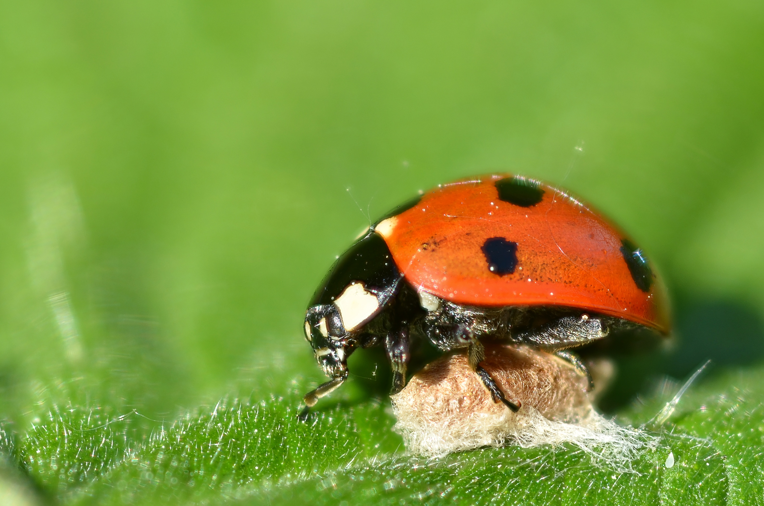 The ladybird Coccinella septempunctata with a parasitoid cocoon, probably of Dinocampus coccinellae (Braconidae). Vaucelles (Doische). Focus stack of 7 handheld pictures. Micro-Nikkor AF 60mm f/2.8D at f/9 on extention tubes. Natural light.